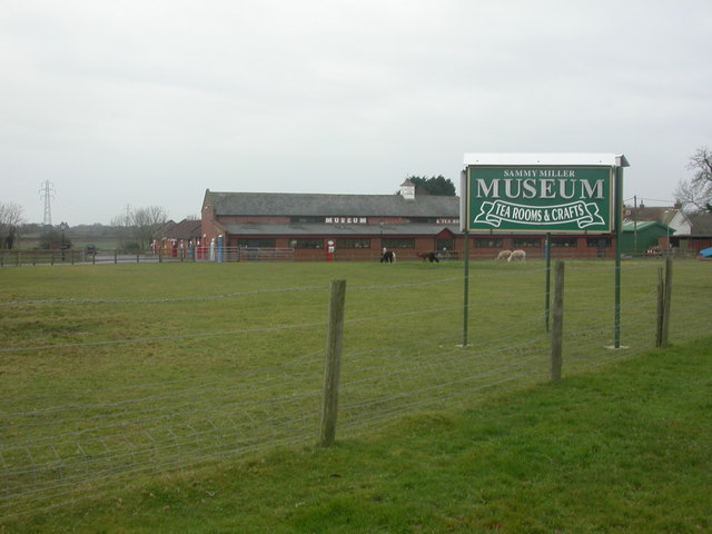 Bashley, Sammy Miller Museum Motorbike museum, in converted Bashley Manor Farmhouse. No, not ungainly horses, but llamas grazing.